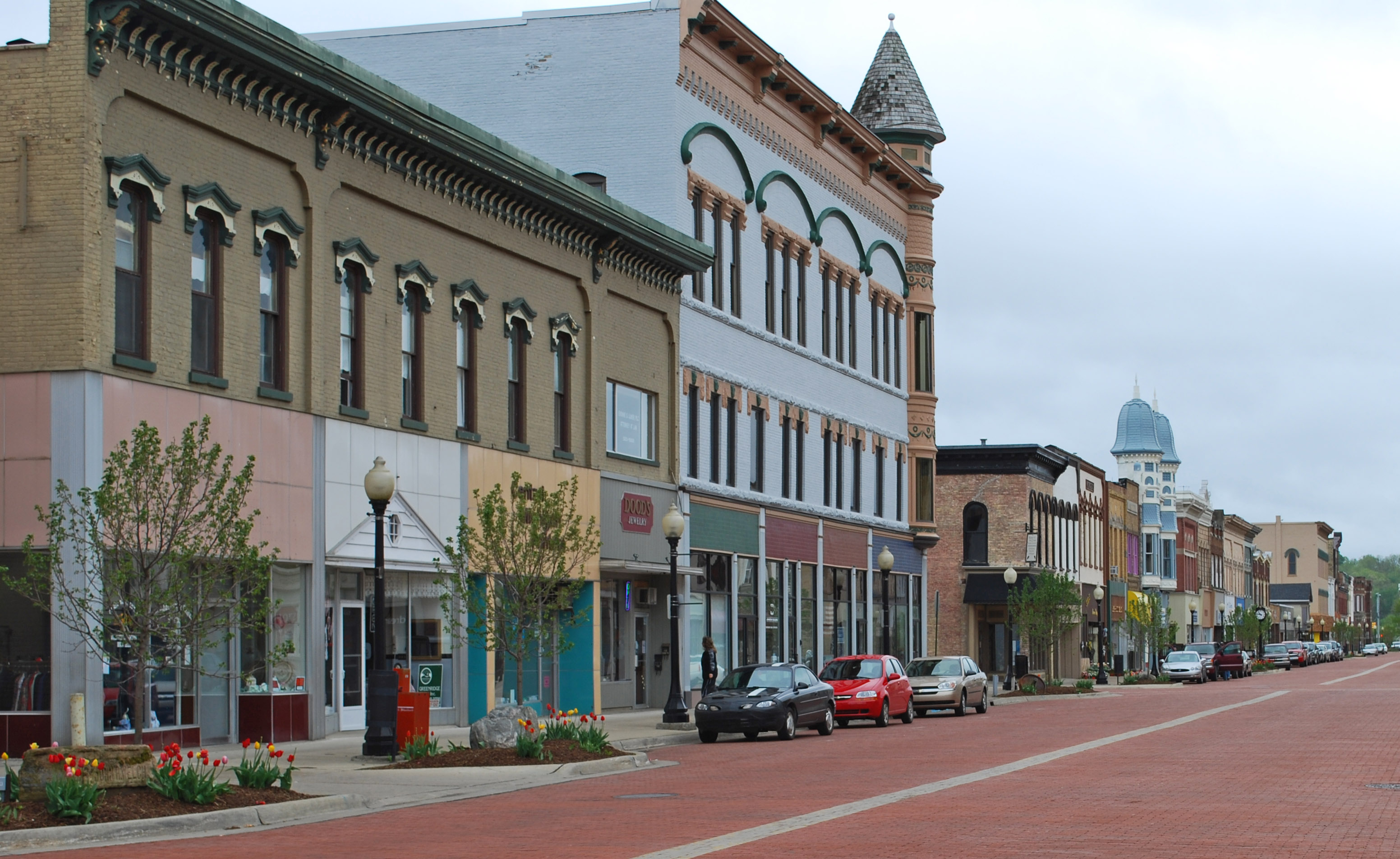 Ionia Downtown Commercial Historic District in Ionia MI, Main Street near Depot